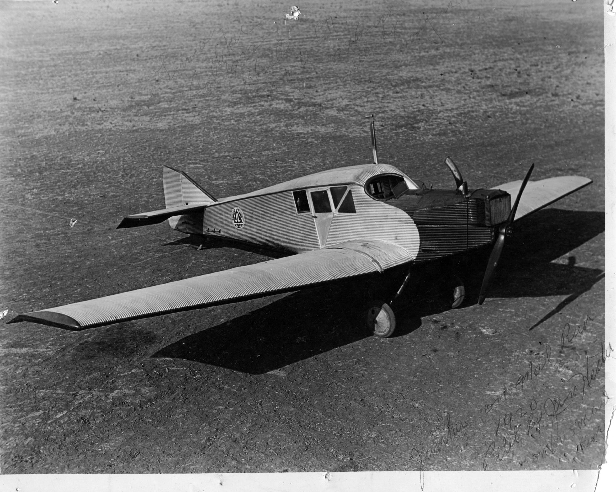 Junkers F 13